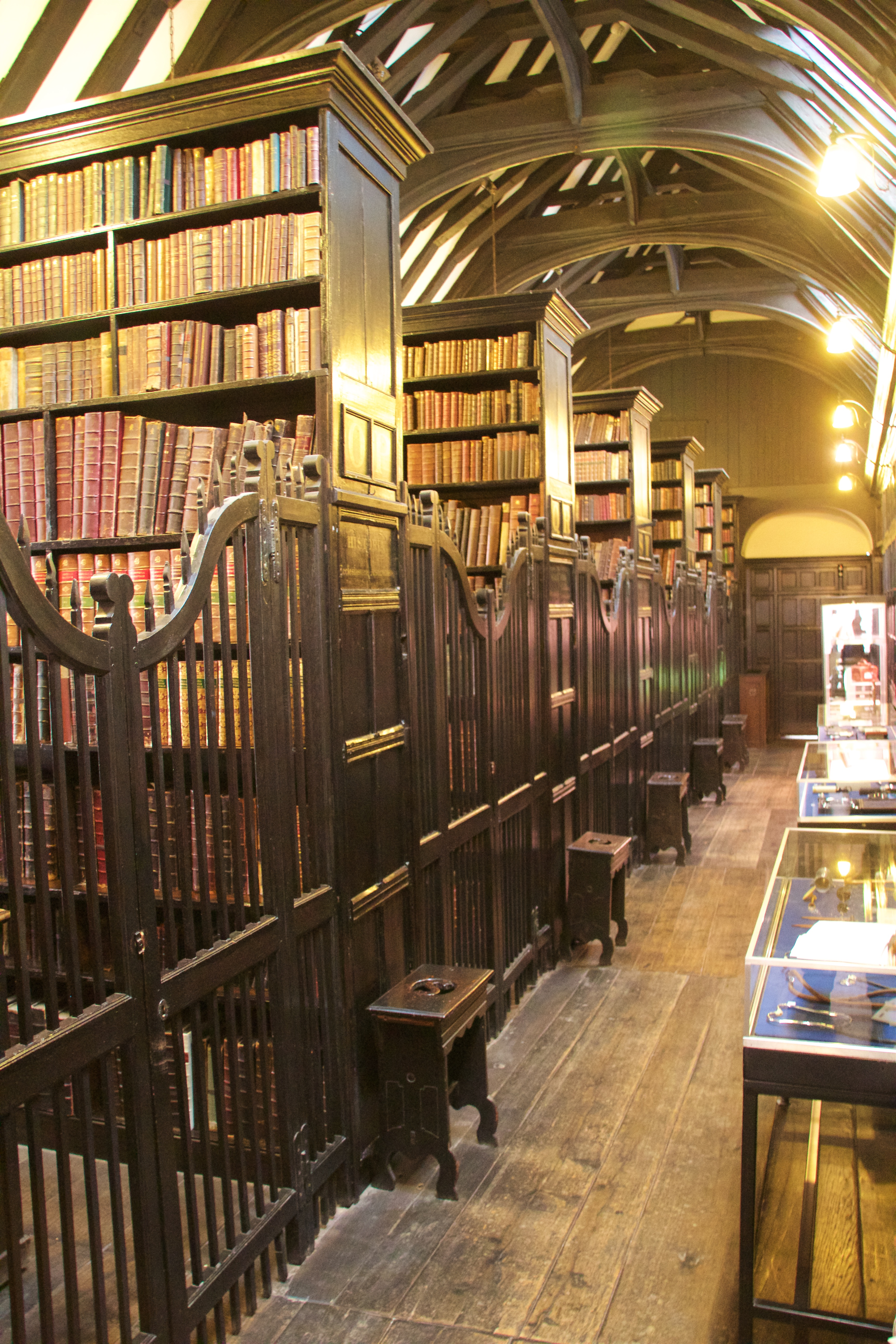 Chetham's Library, Manchester, United Kingdom